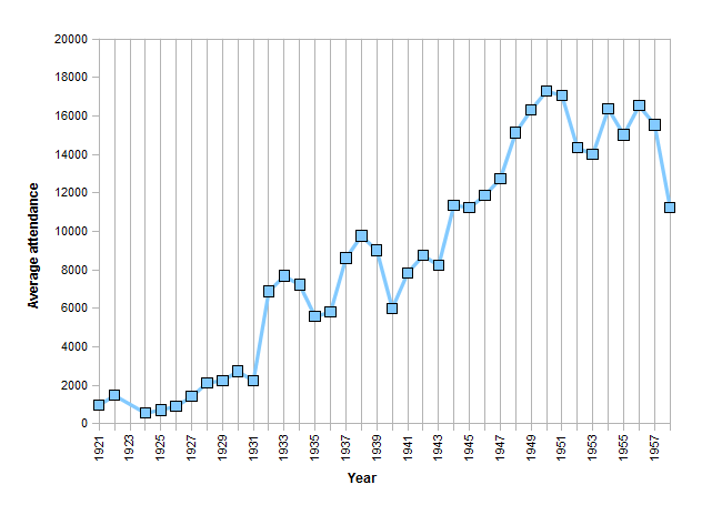 A graph of average league attendances at Malmö IP in the period from 1921 to 1958.